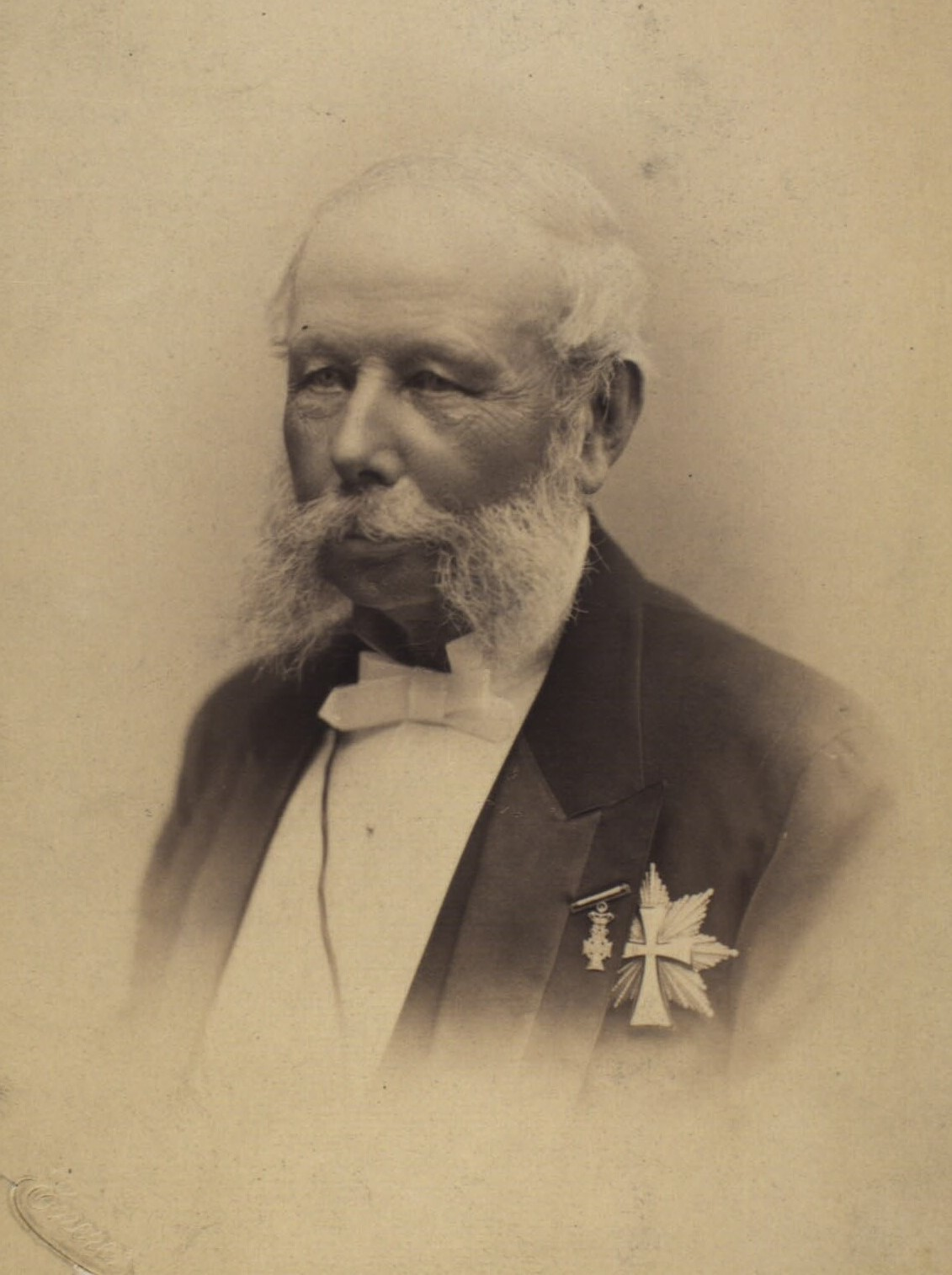 Danish estate owner, Foreign Minister, MP, baron Otto Ditlev Rosenørn-Lehn (1821-1892)